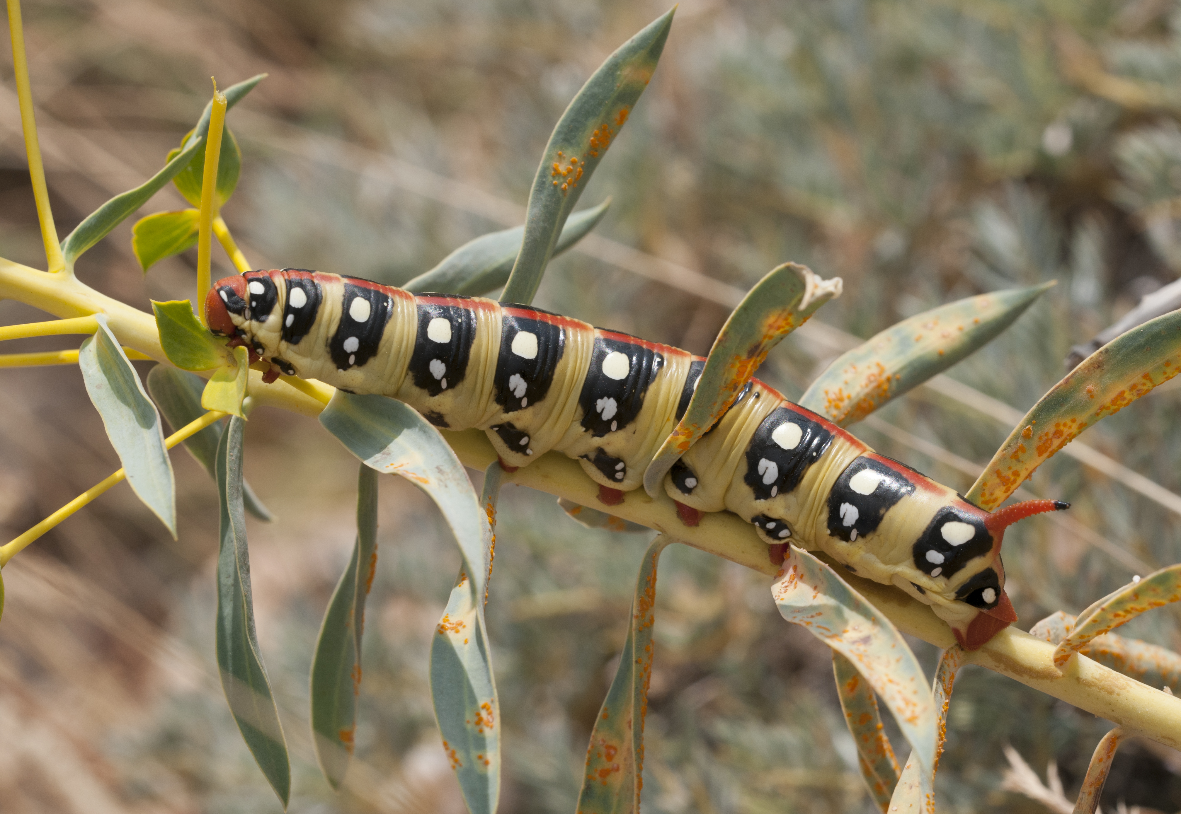 A larva of Spurge Hawk-Moth (Hyles euphorbiae). Aladağlar, Çamardı - Niğde, Turkey.